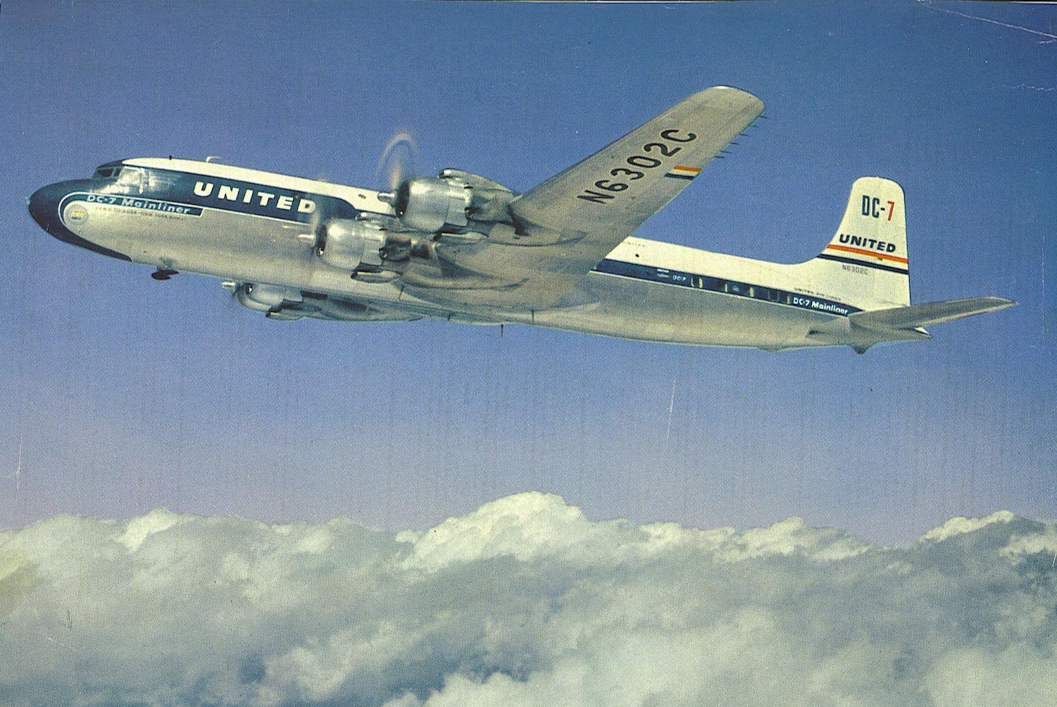 United Air Lines Douglas DC-7, N6302C